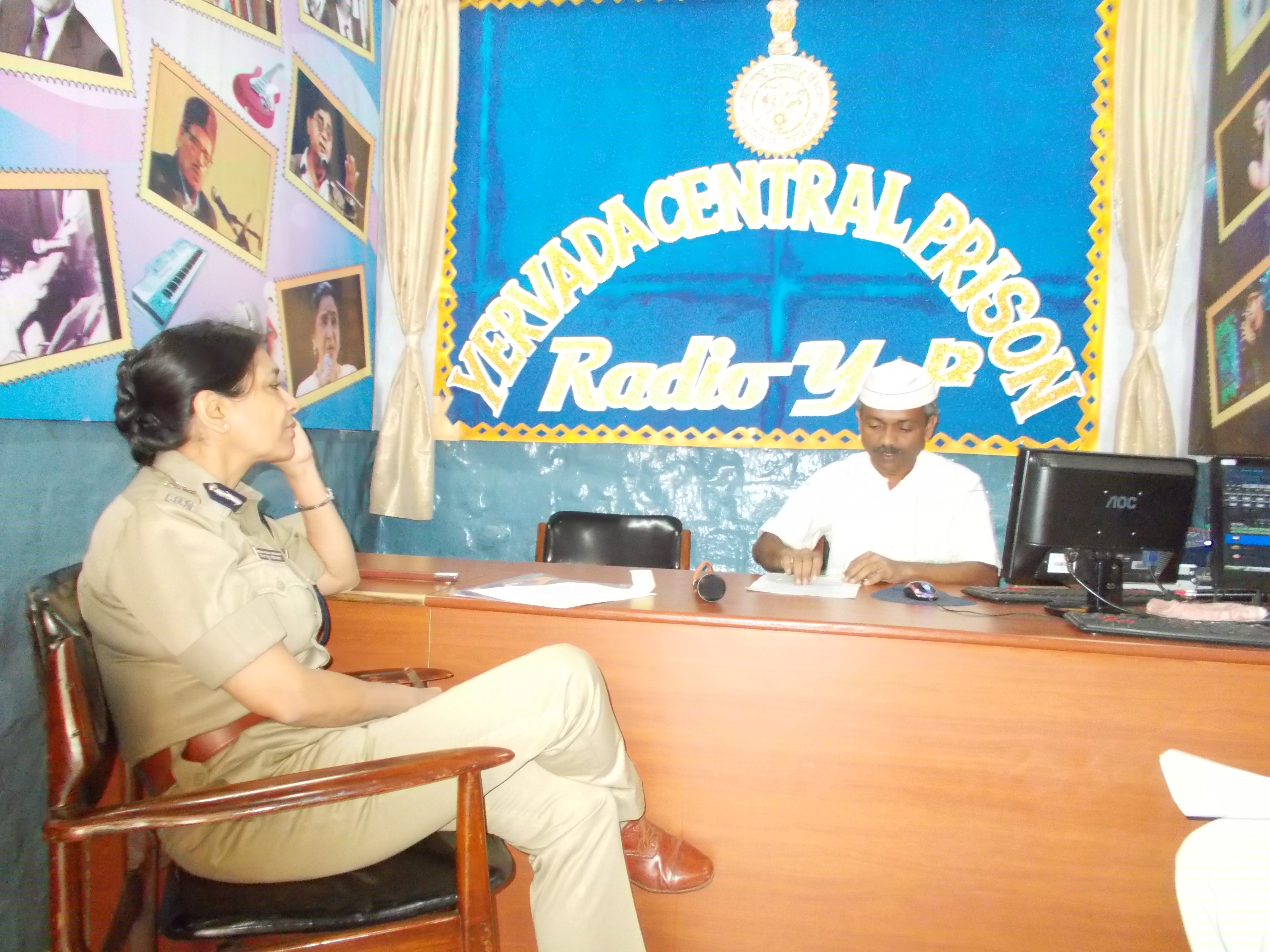 This is the first-of-its-kind in-house 'radio' station for the prisoners, by the prisoners and about the prisoners.